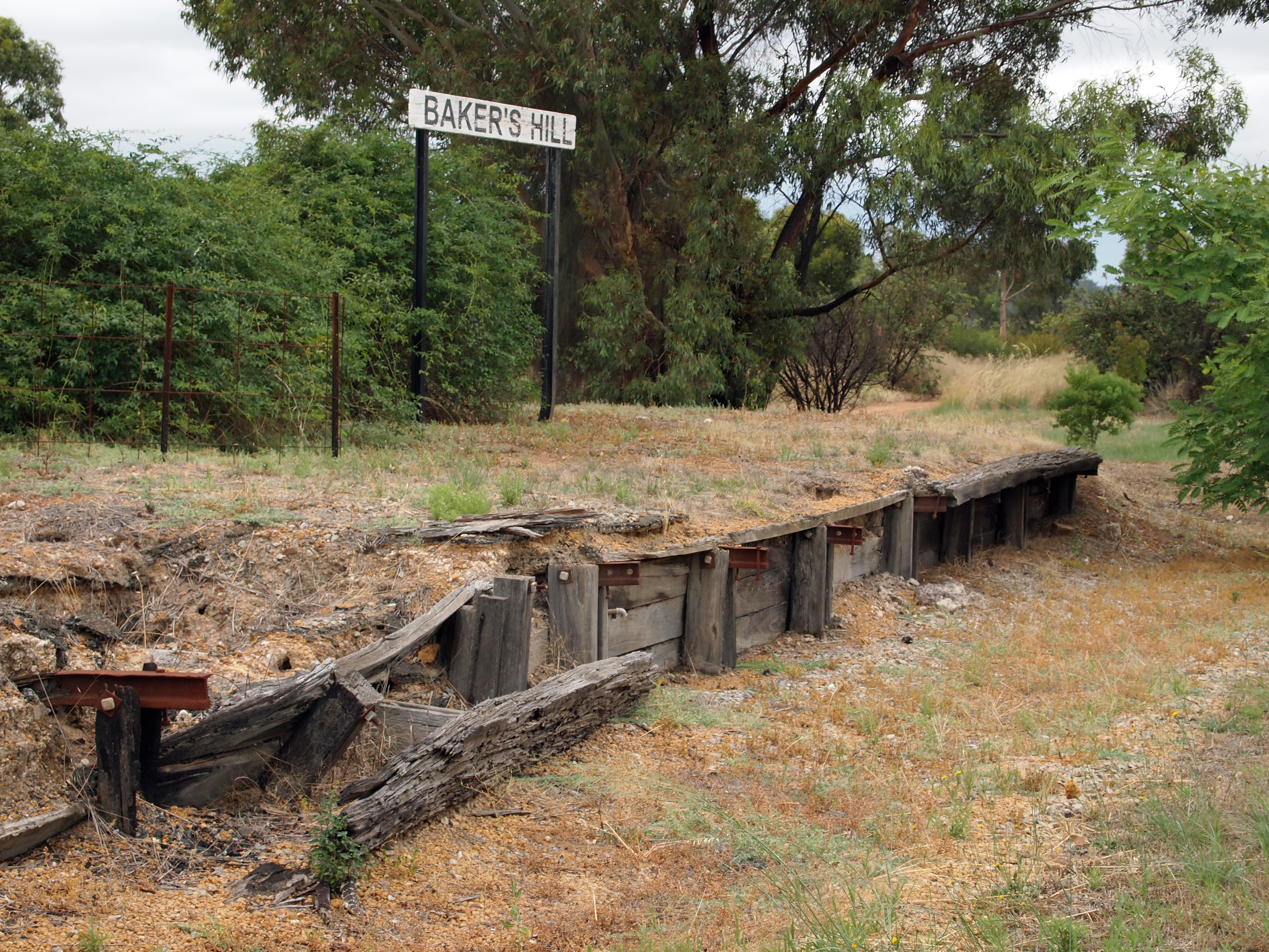 Derelict platform, station at Bakers Hill, Western Australia